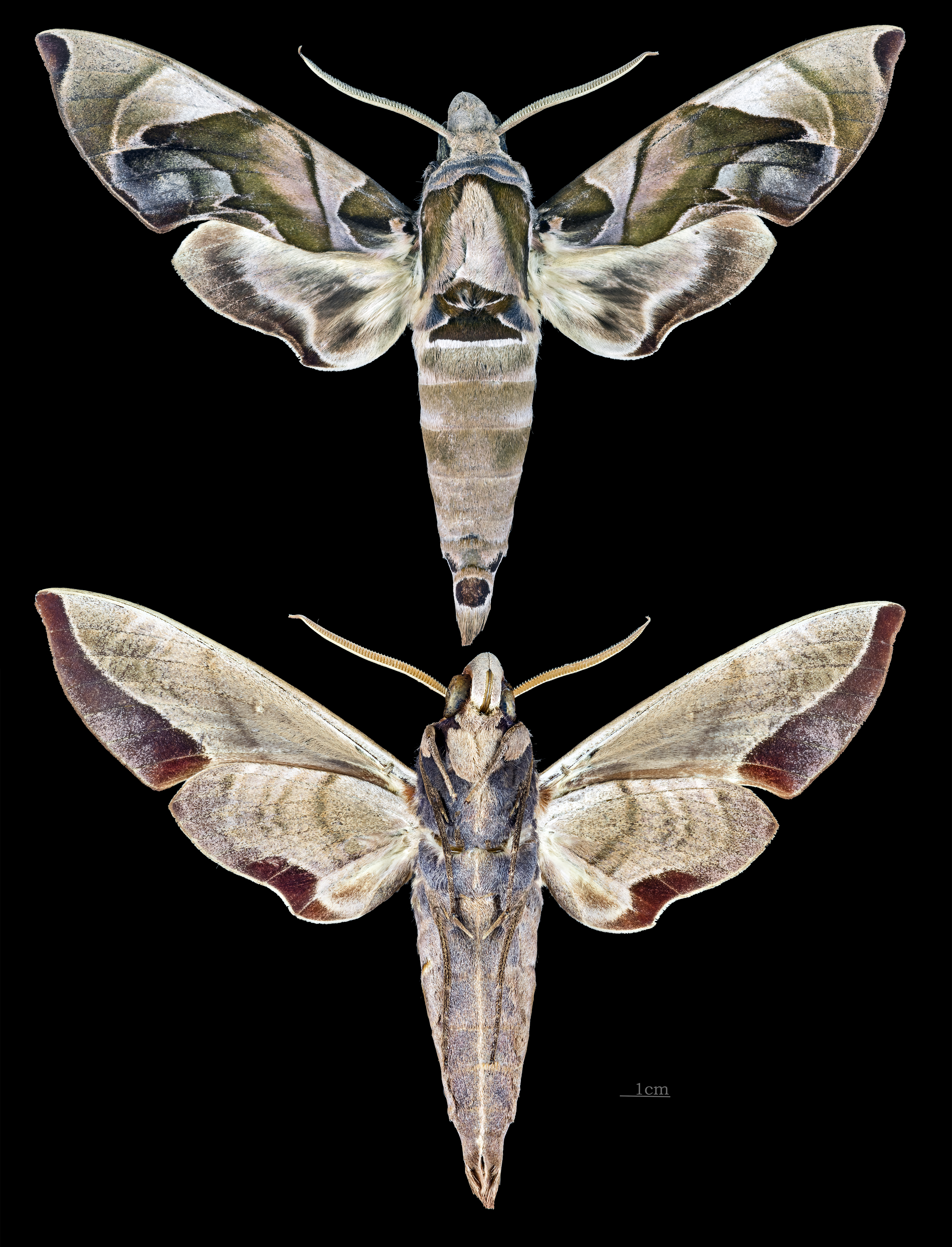 Daphnis protrudens - Two views of same specimen Collection of the Mathematician Laurent Schwartz